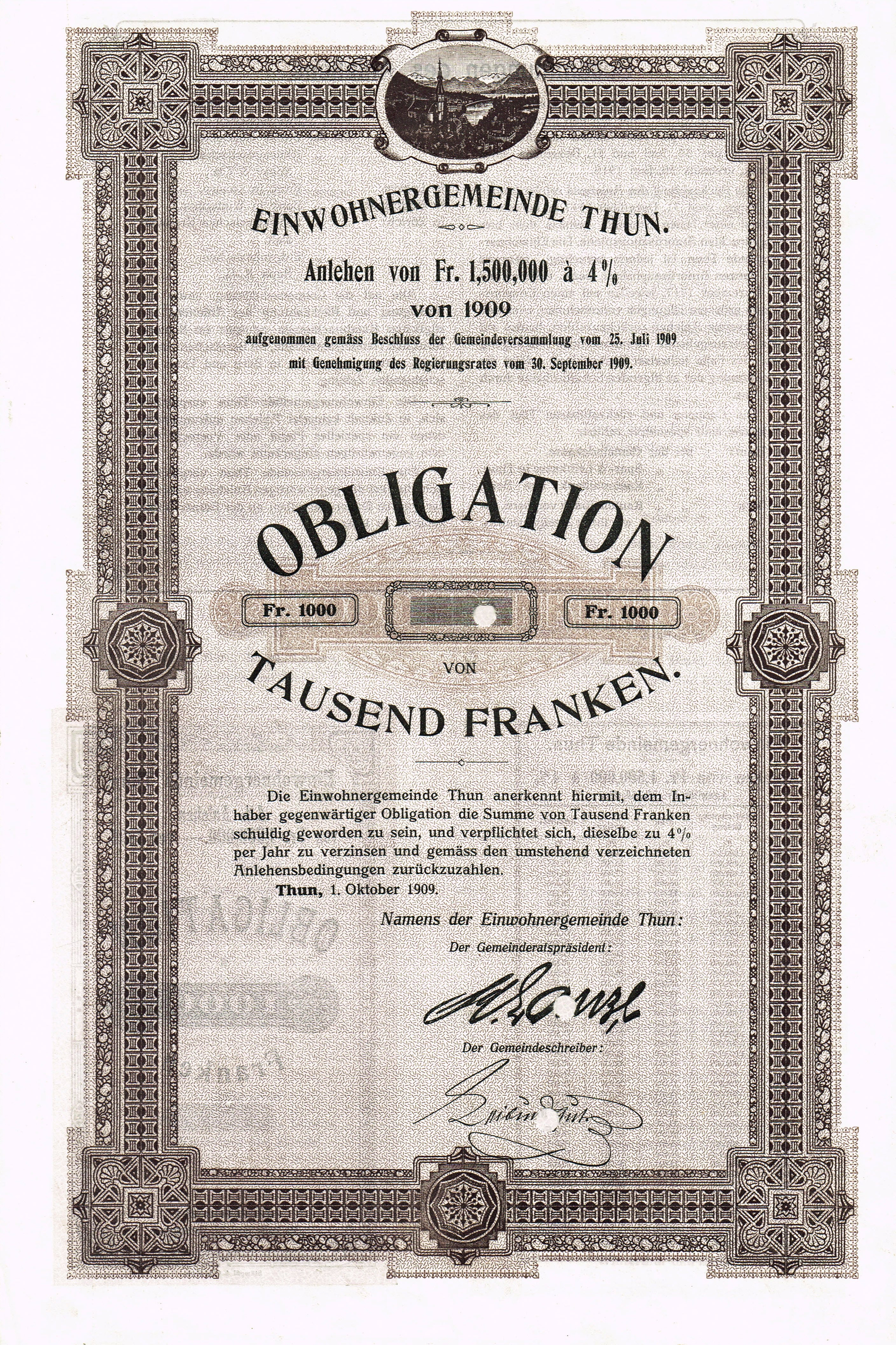 Bond of the Einwohnergemeinde Thun, issued 1. October 1909